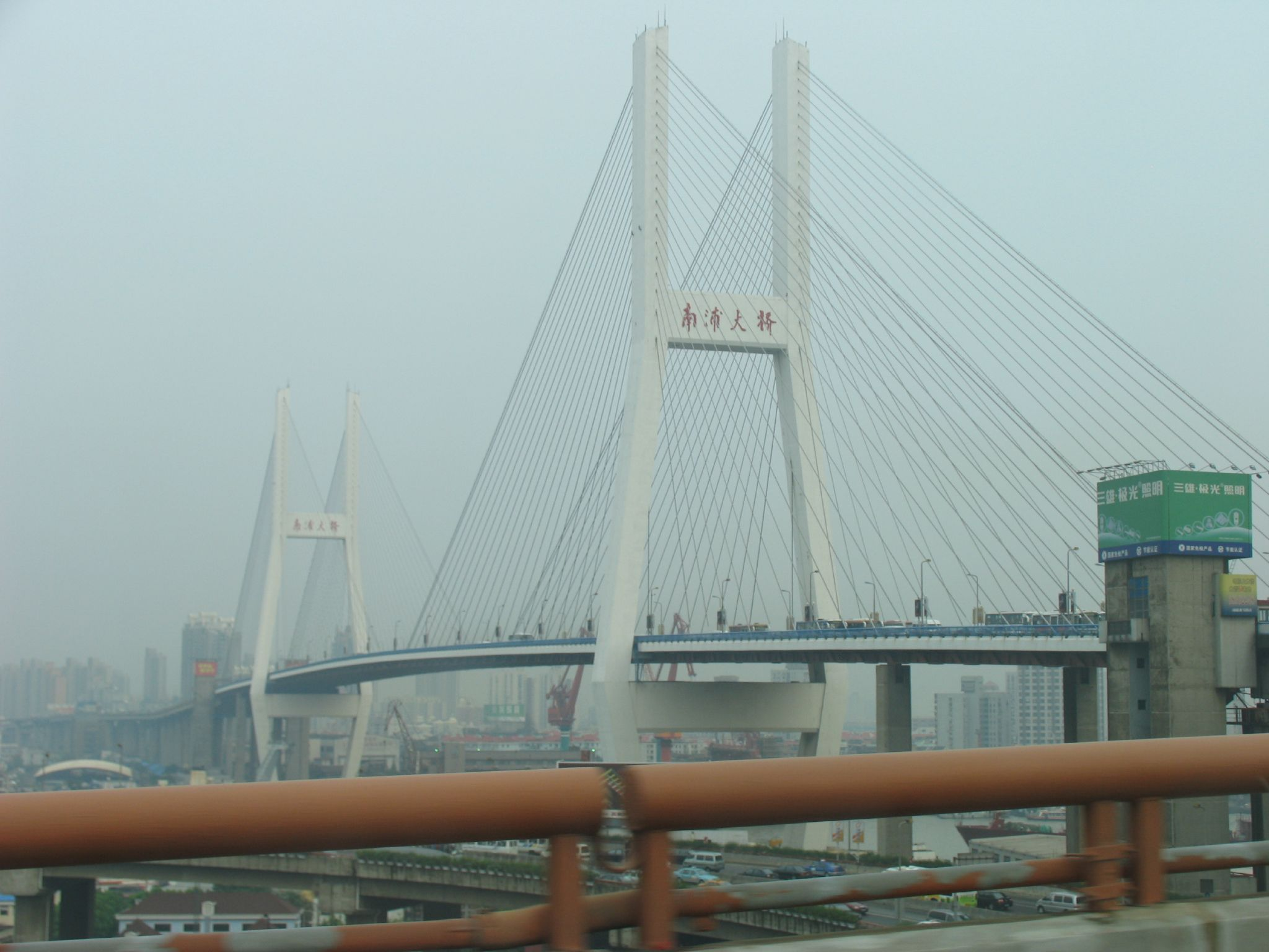 Nanpu Bridge in Shanghai